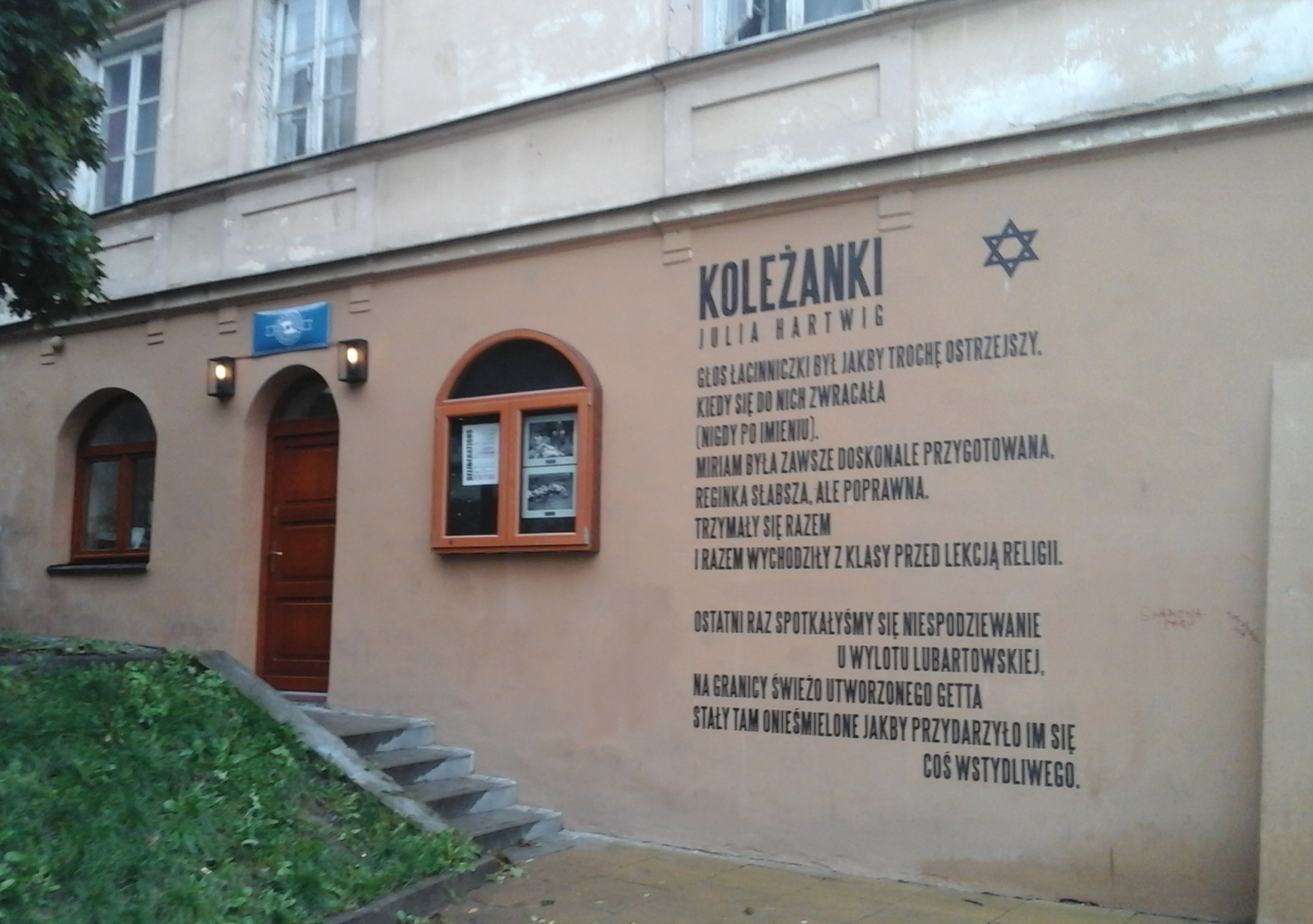 Warsztat Fotograficzny należący do instytucji Warsztaty Kultury przy Zaułku Hartwigów.